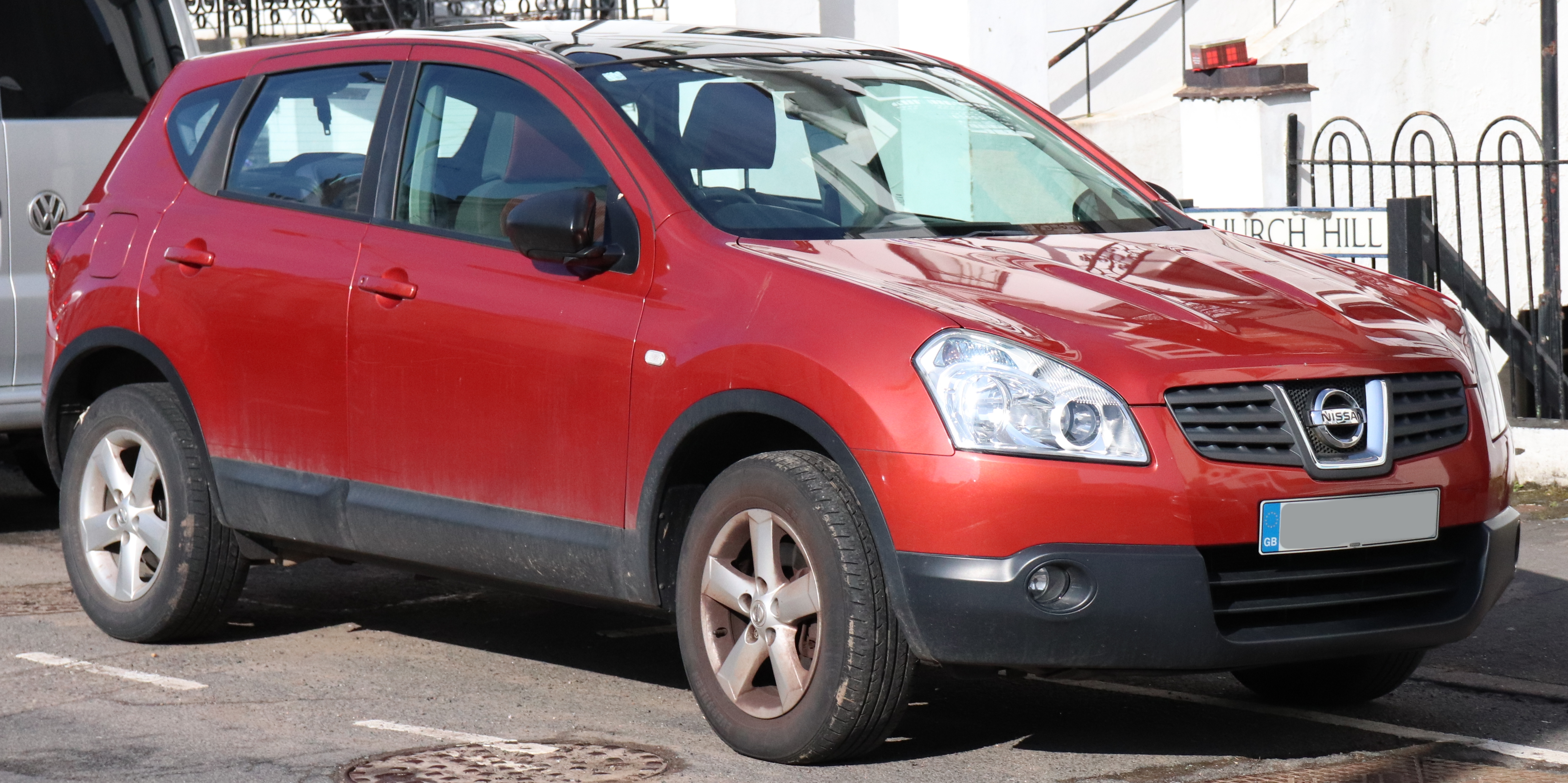 2007 Nissan Qashqai Acenta 2WD 1.6 Taken in Leamington Spa